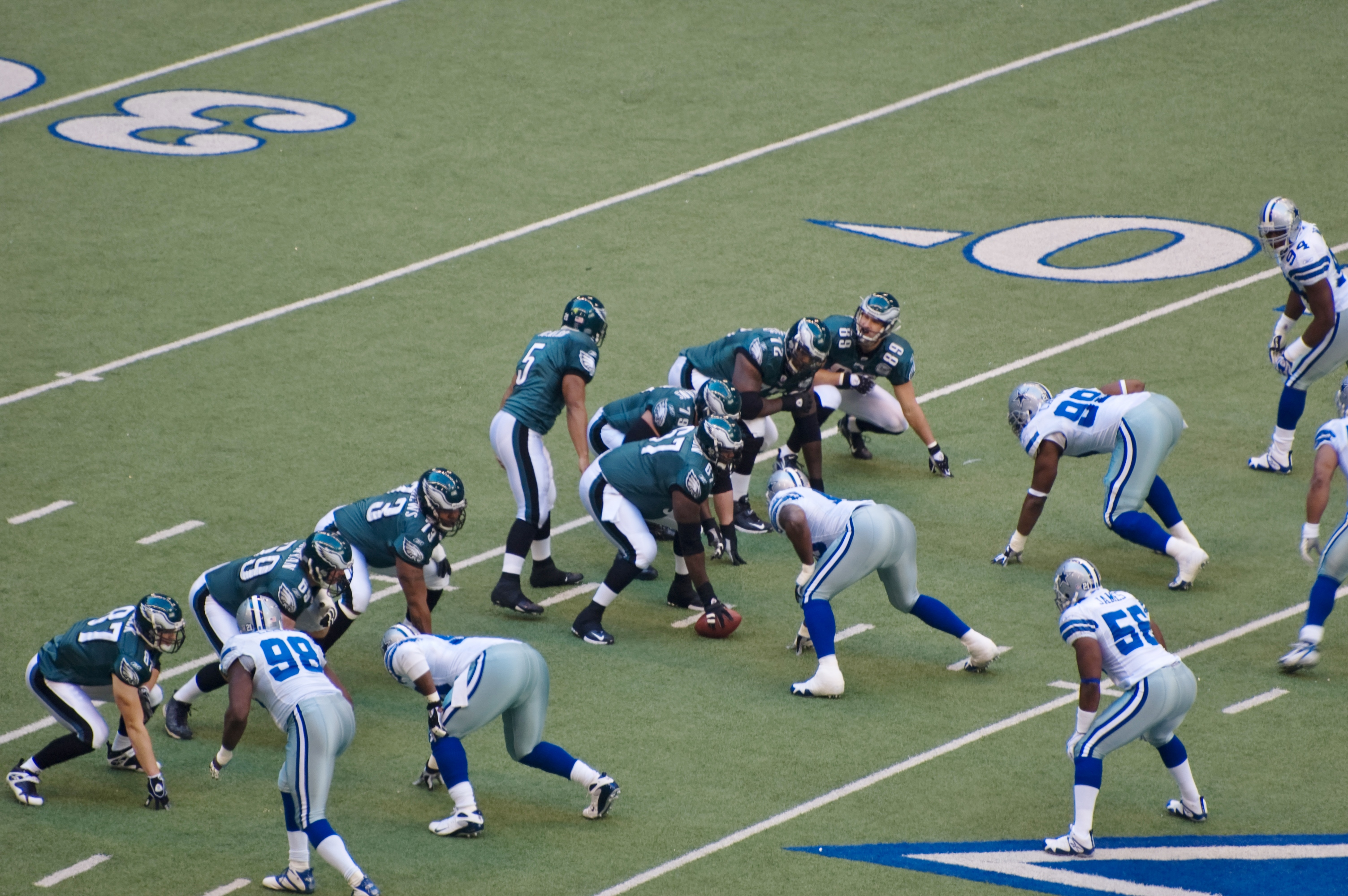 In the Dec. 16, 2007 Philadelphia Eagles vs Dallas Cowboys NFL game at Cowboys Stadium in Texas, Eagles QB Donovan McNabb (#5) calls plays to TE Matt Schobel (#89).